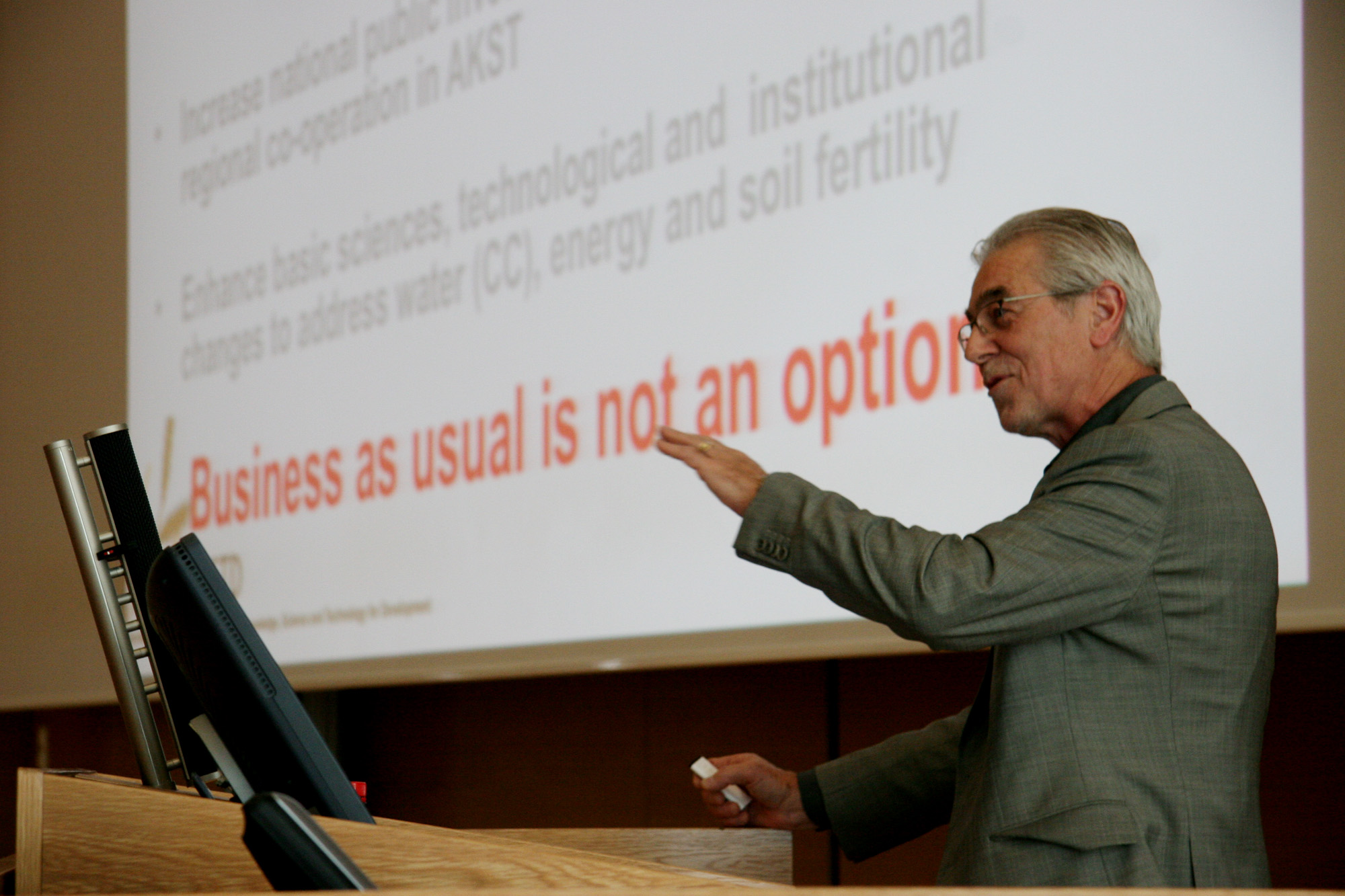 Dr. Hans Rudolf Herren during his lecture on "Food security now and then: global thinking, local acting".